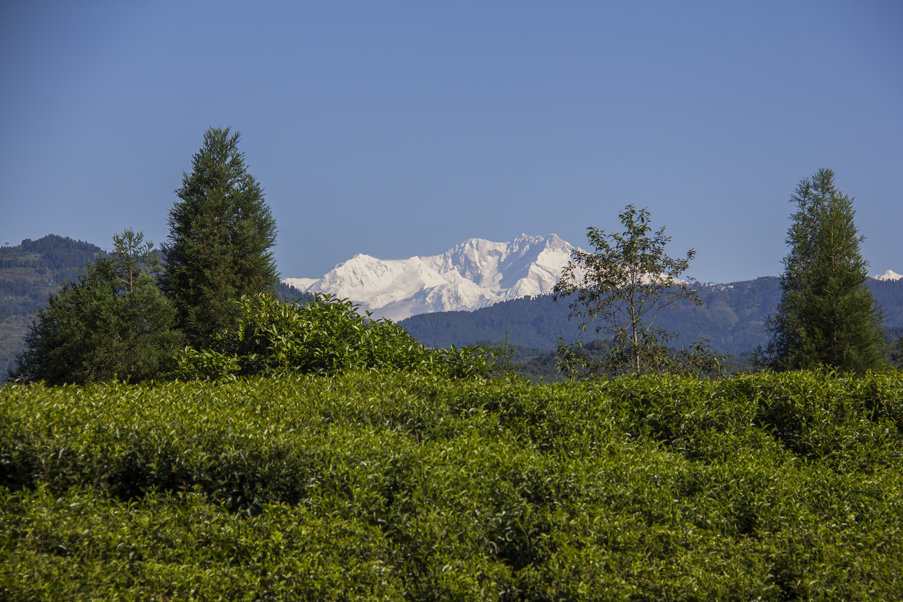 Mount Kangchenjunga (8,586 metres), the third highest mountain in the world, with beautiful tea garden at front.